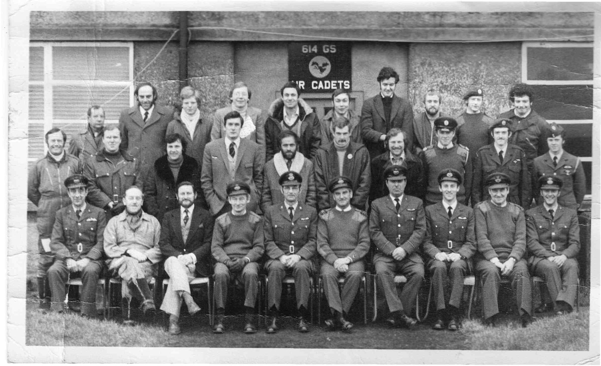 This photo was taken after a January AGM outside Hanger No 3 at RAF Debden in 1976 (I think). hence the hunched shoulders and pinched expressions. — with Bernie Foster, John Woods, Keith Butcher, Laurie Wilkinson, Bill Sole, John Nunn, Peter Carman, John Tydeman, Brian Foley, Frank Martin, Pete Baker, Tommy Thompson, Andy Eve, Alan Chapman, Flt Lt Les Howe, Ted Hampson, Keith Sanders, Reg Statham, Graham Hayes, Dickie White, Doug Bettel-Higgins, Graham Tydeman, John Knock, Noel Scanlon, Steve Wakeman and P O Terry Horsley.